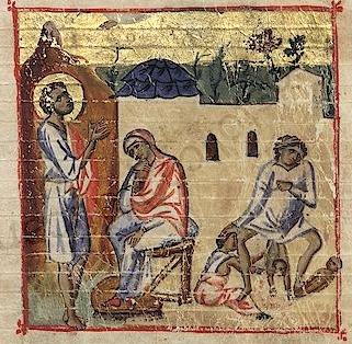 rebecca giving birth to esau and Jacob (Vatican City, Vatican library, gr. 747, fol. 46v)